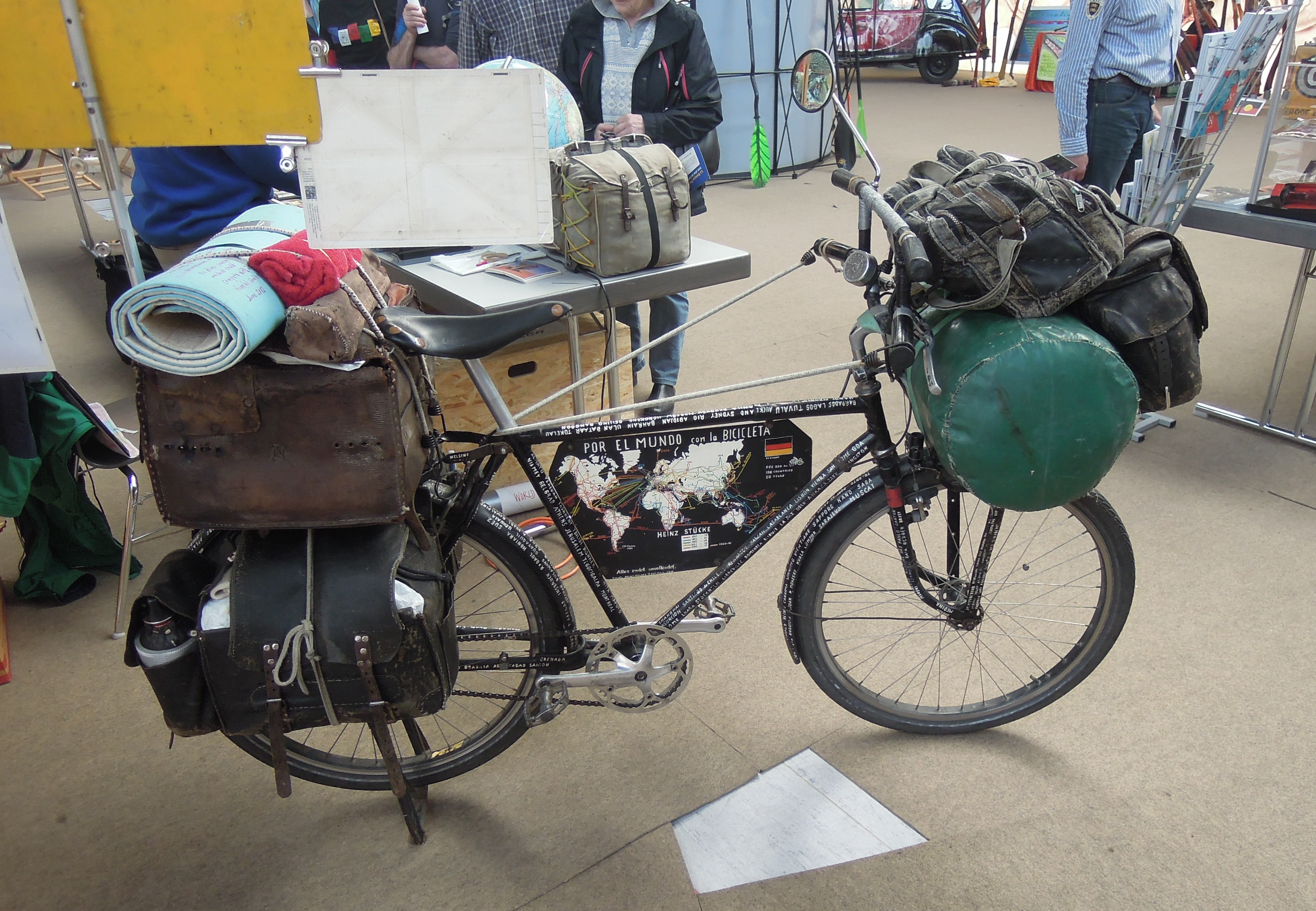 Glauchau - Heinz Stücke - his bicycle from the right (source name: dscn3868_5._Abenteuertage_Glauchau_-_Heinz_Stücke_-_Fahrrad_von_rechts-crop.jpg)